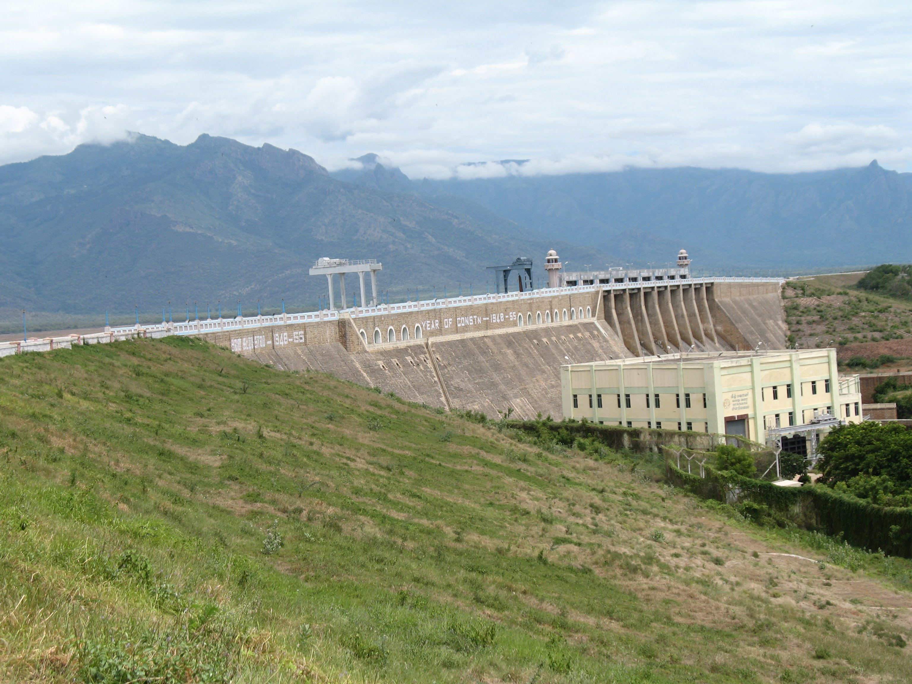 Bhavani-sagar-Dam-and-Reservoir